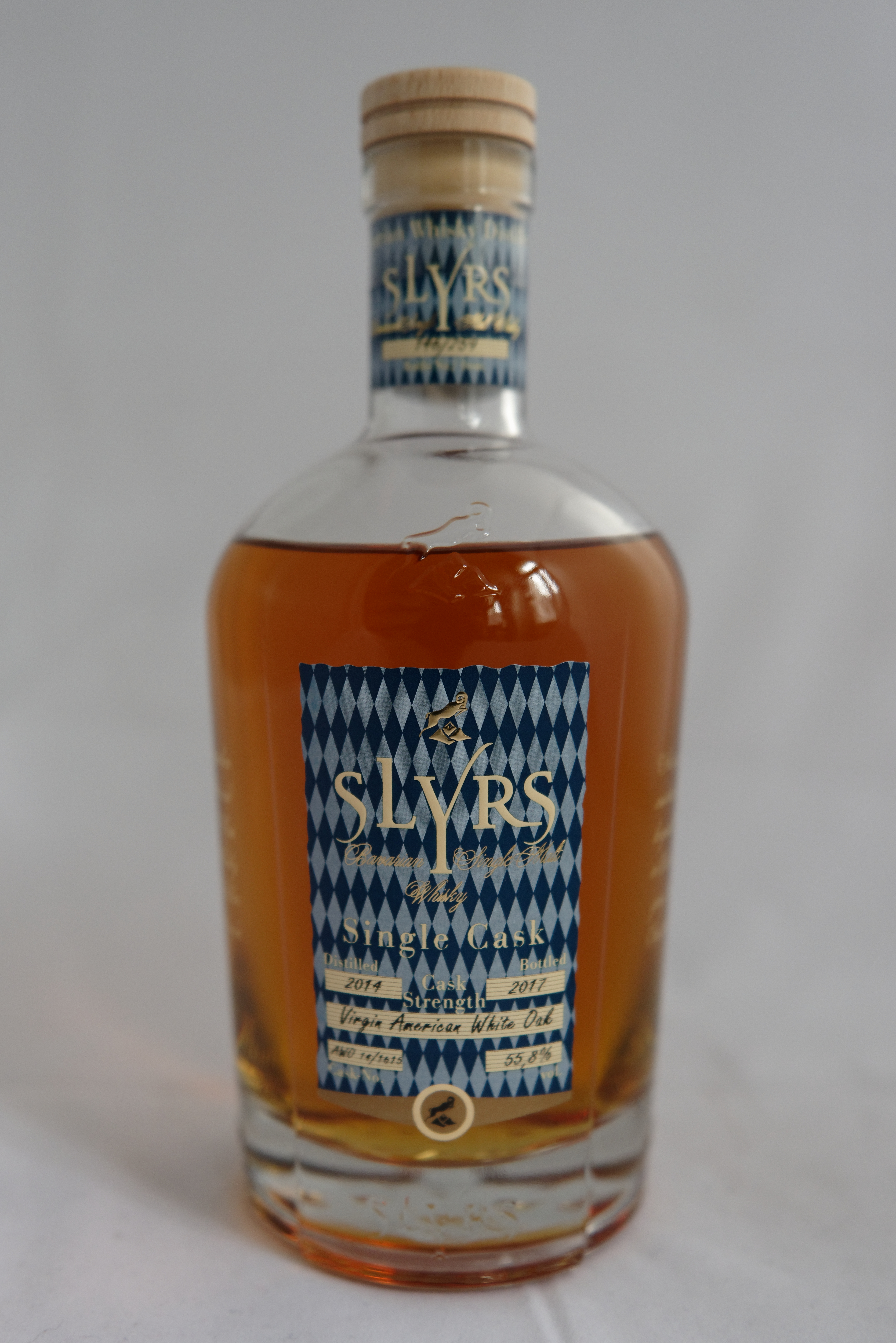 Slyrs Single Cask, 55,8 vol, 3 years, virgin american white oak